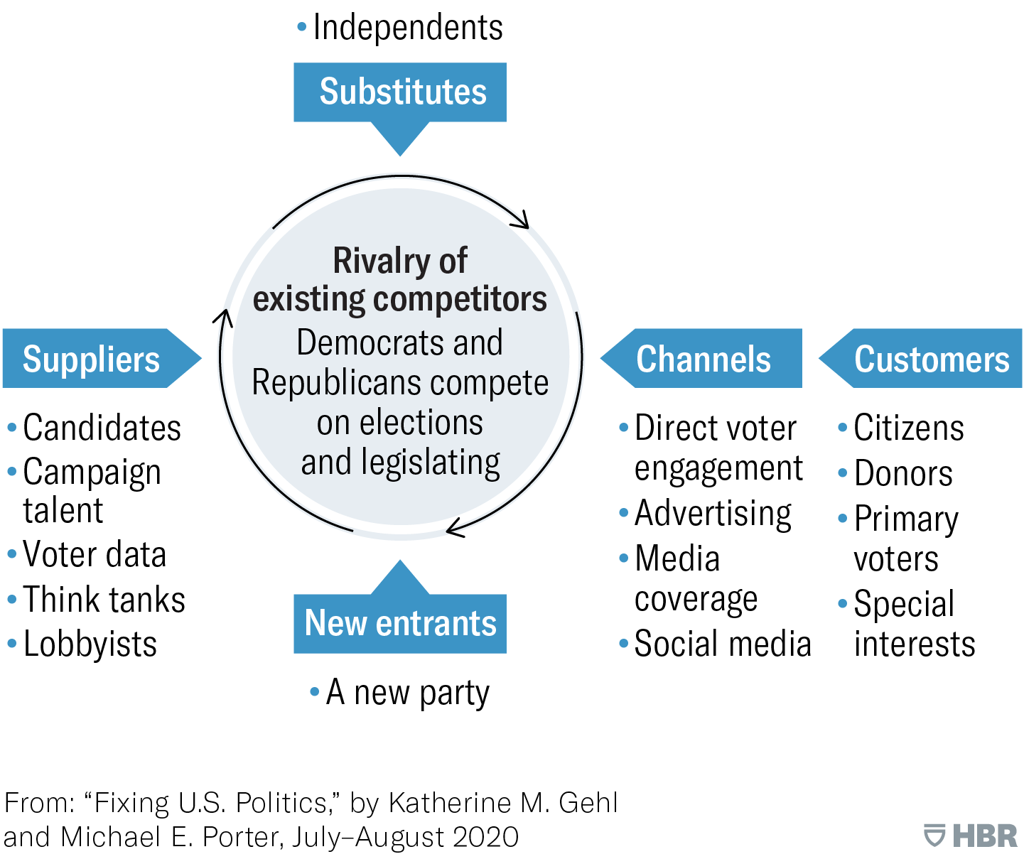 Applying the Five Forces Framework